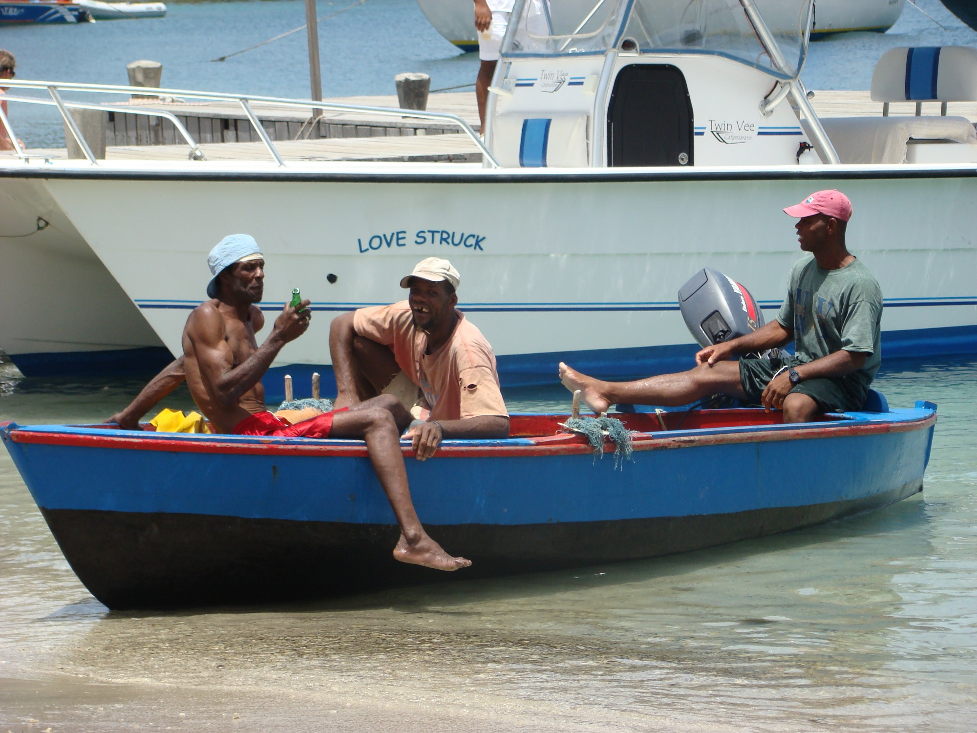 Fishers at Bequia Island. Fishers at Bequia Island, Saint Vincent and the Grenadines.